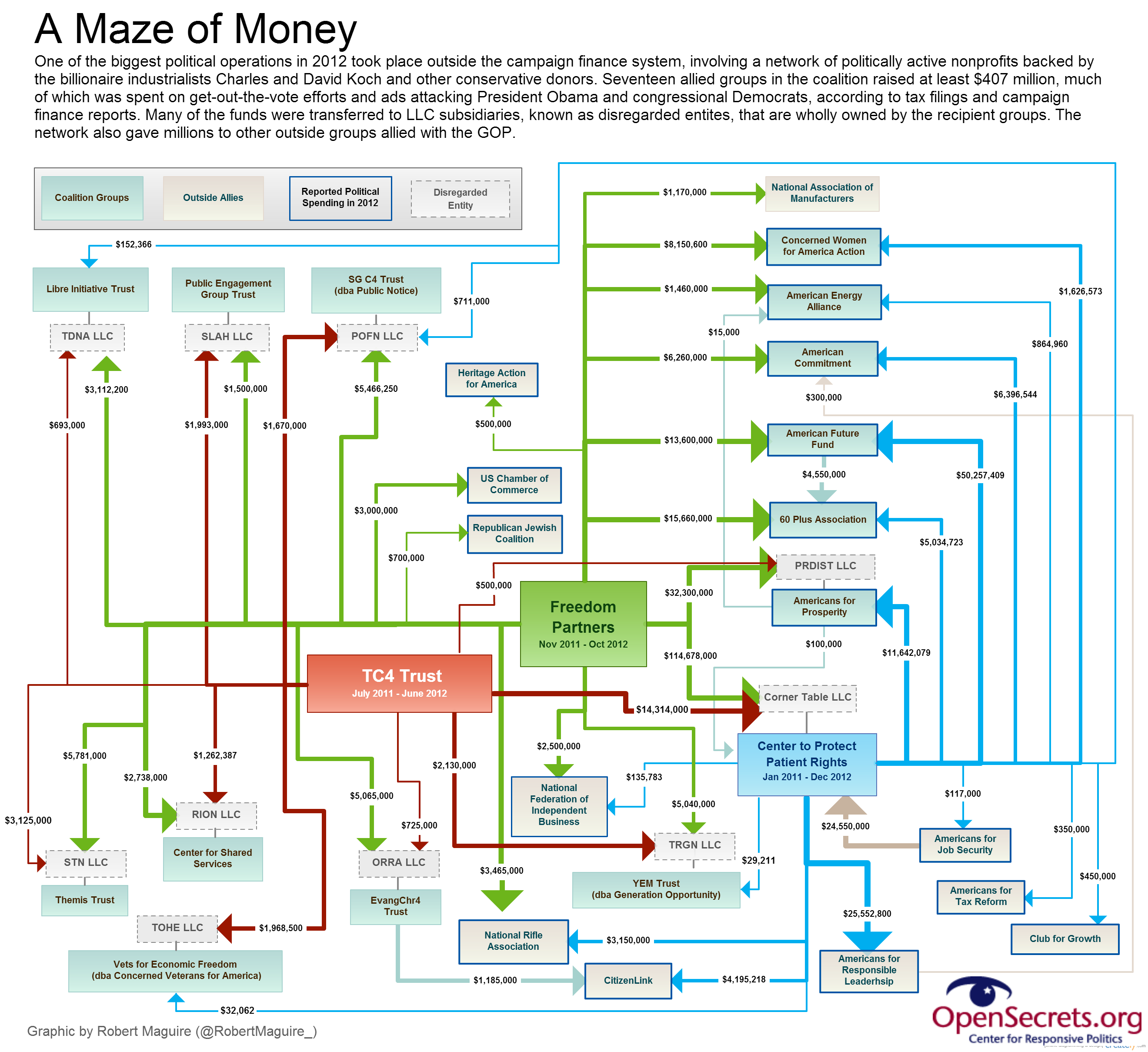 Money flow between a network of politically active nonprofit organizations in 2012